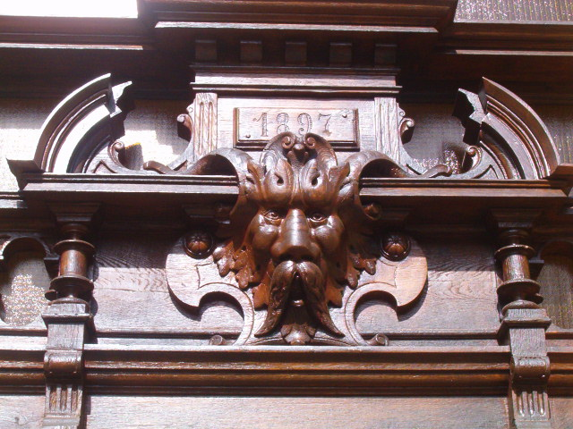 Toruń, Bydgoskie Przedmieście, door of house at Bydgoska Str.